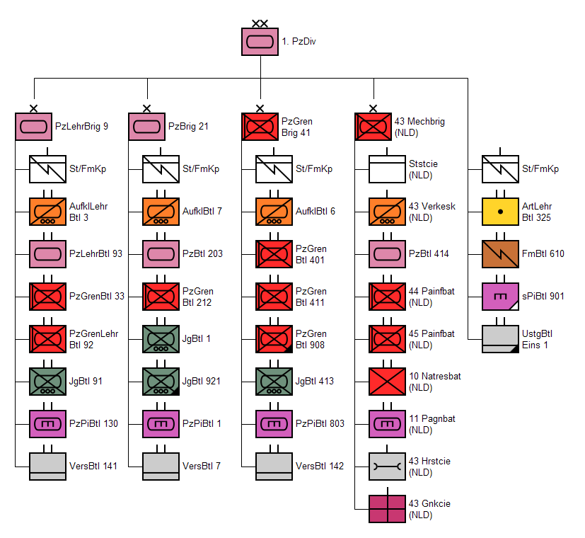 Organizational chart of the 1. Panzerdivision (Bundeswehr).